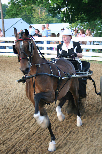 "Road Buggies" at a Saddlebred show in Kentucky